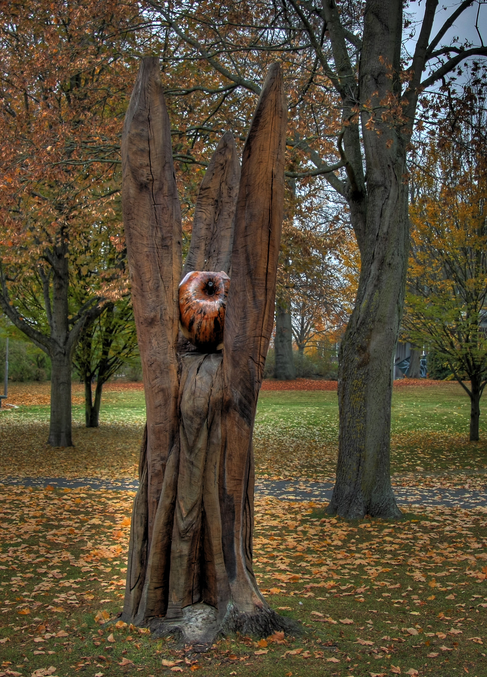 Public work of art in Hässleholm, Sweden, by Sven-Ingvar Johansson